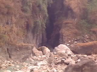 Seti Gorge